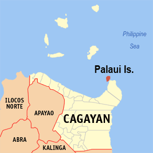 Map of Cagayan showing the location of Palaui Island in Cagayan